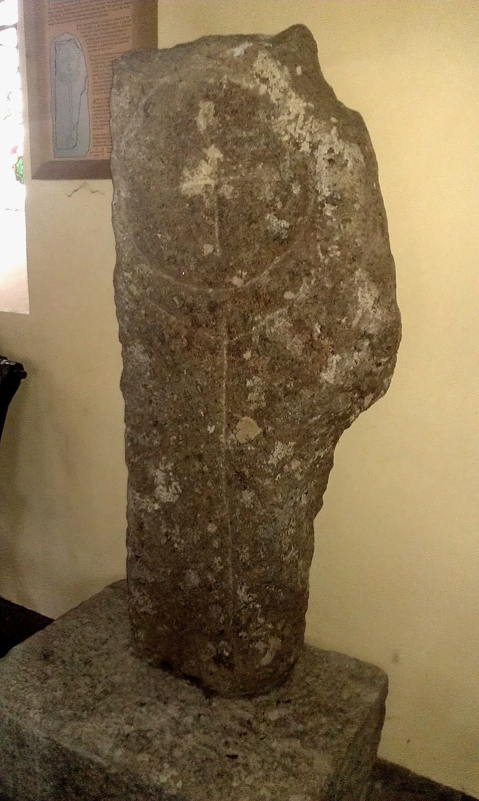 The Belstone Ring-Cross, found within the Church of St. Mary the Virgin in Belstone, Dartmoor. The ring-cross is early medieval in origin.